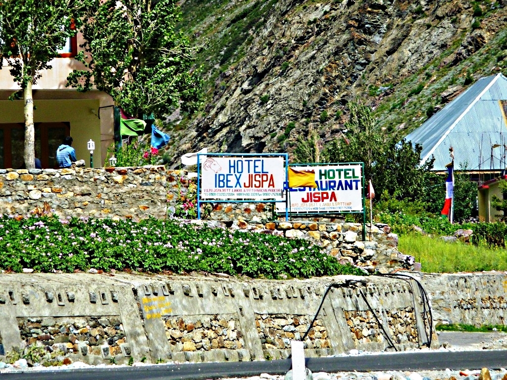 I took this photo on a trip to ladakh in 2010